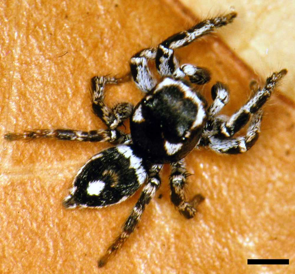 Male Habronattus carolinensis jumping spider from Florida, USA